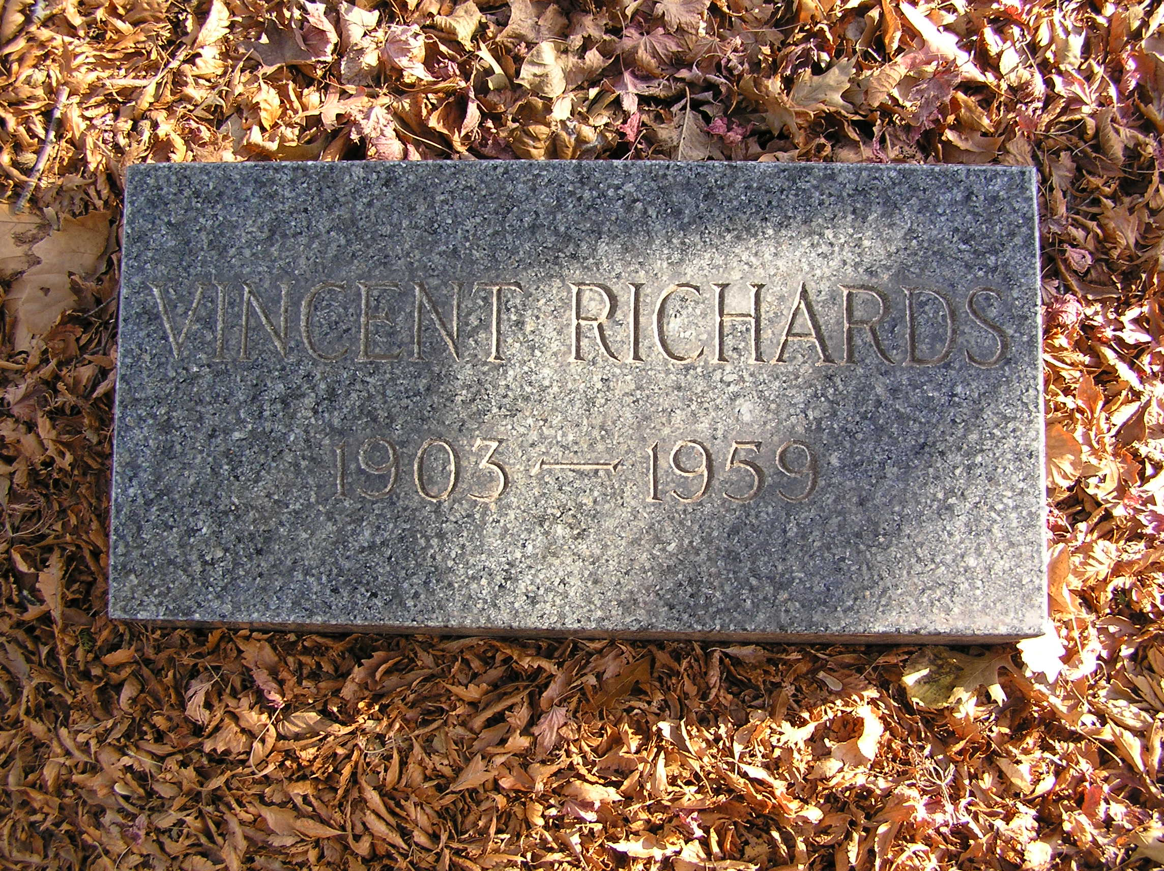 The gravesite of Vincent Richards in Woodlawn Cemetery